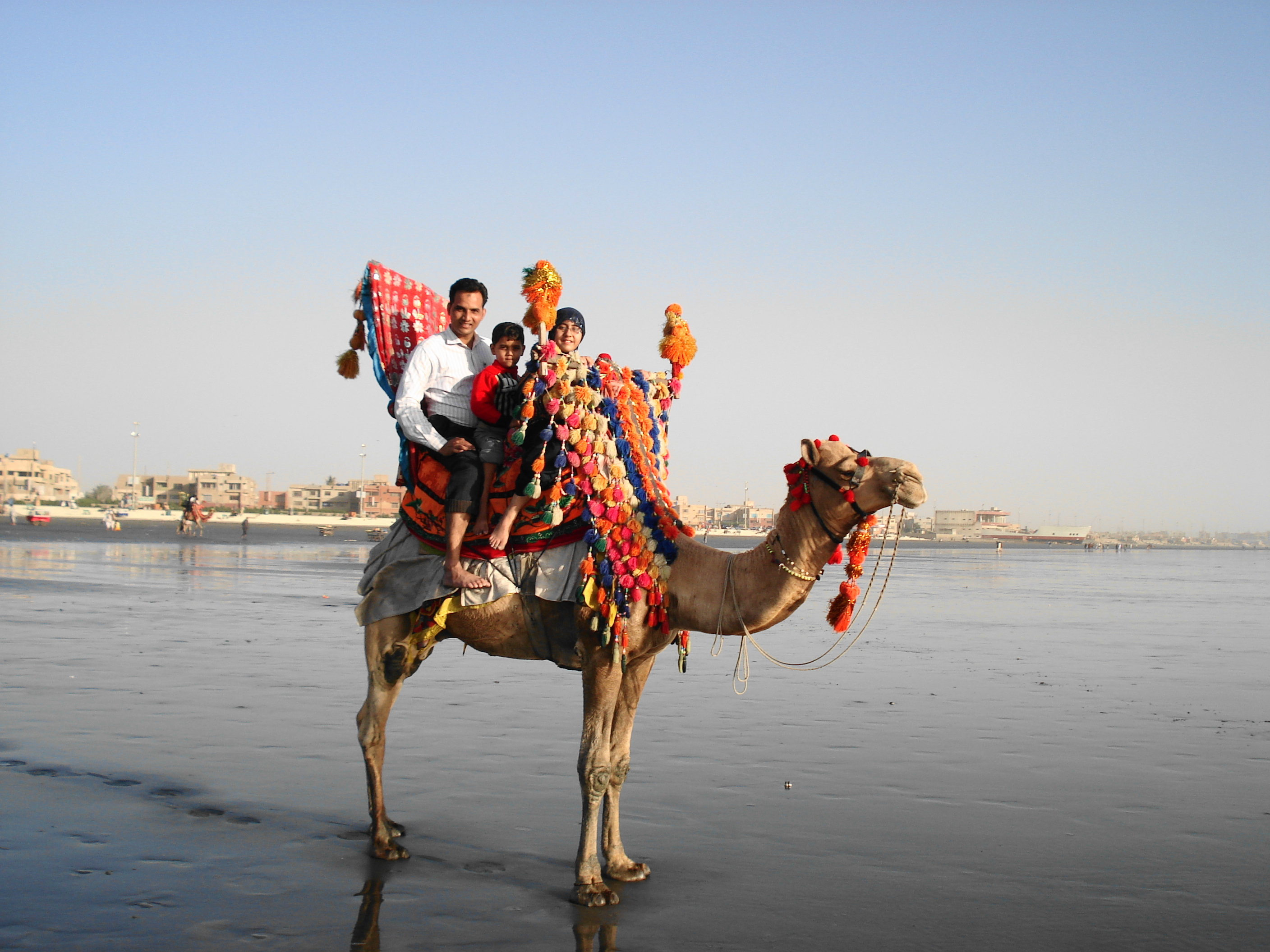 Cliftn Beach